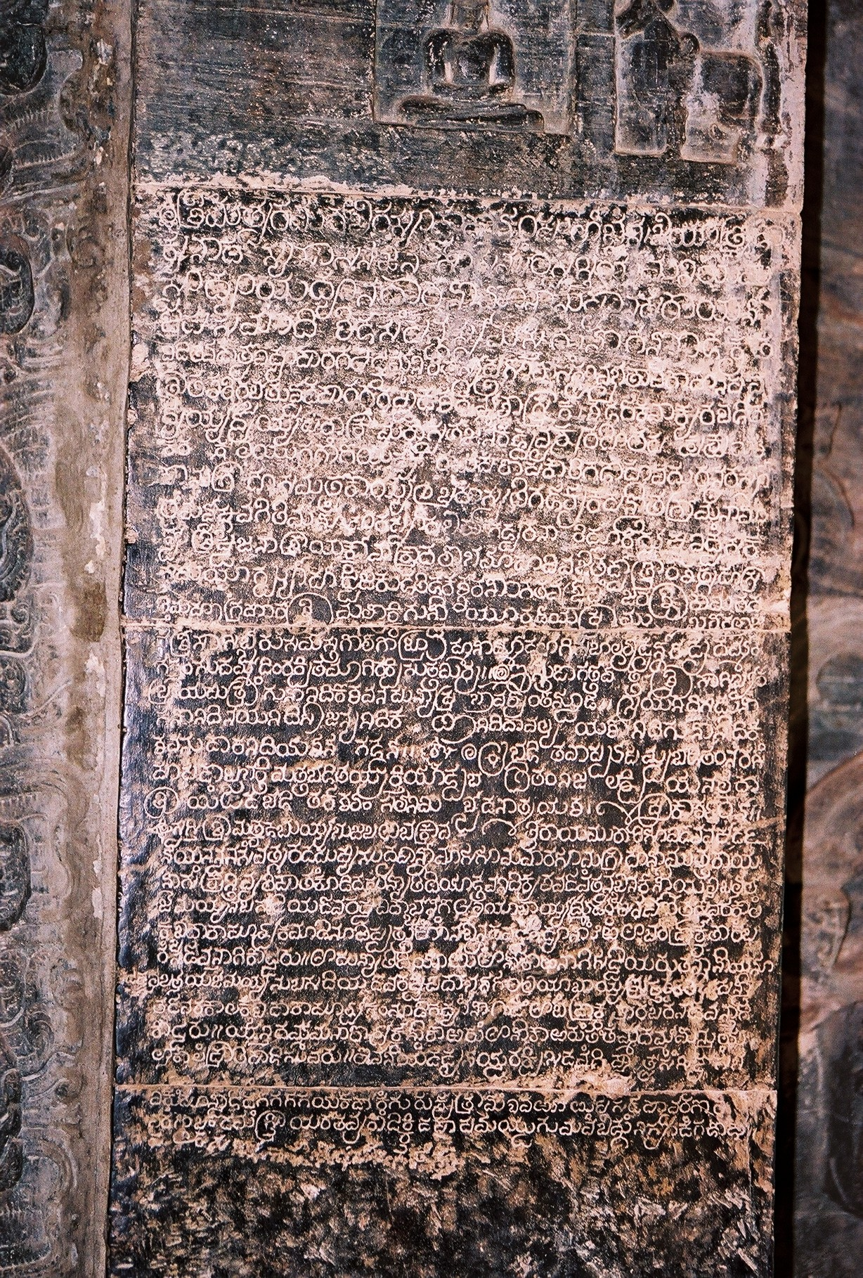 This photograph of an old Kannada inscription (1172-73 AD) ascribed to Kalachuri King Rayamurari Sovideva was taken by me in the Jain temple at Lakkundi in the Gadag district of Karnataka state, India.Source:The Chalukyan Architecture of Kanarese Districts by Henry Cousens, pp.79, 1926, 1996, Archaeological Survey of India, New Delhi,oclc = 37526233; South Indian Inscription, Volume XV, Bombay Karnataka inscriptions, Kalachuris, no.119, editors: Shama Sastry, Lakshminarayana Rao, , Archaeological Survey of India, New Delhi